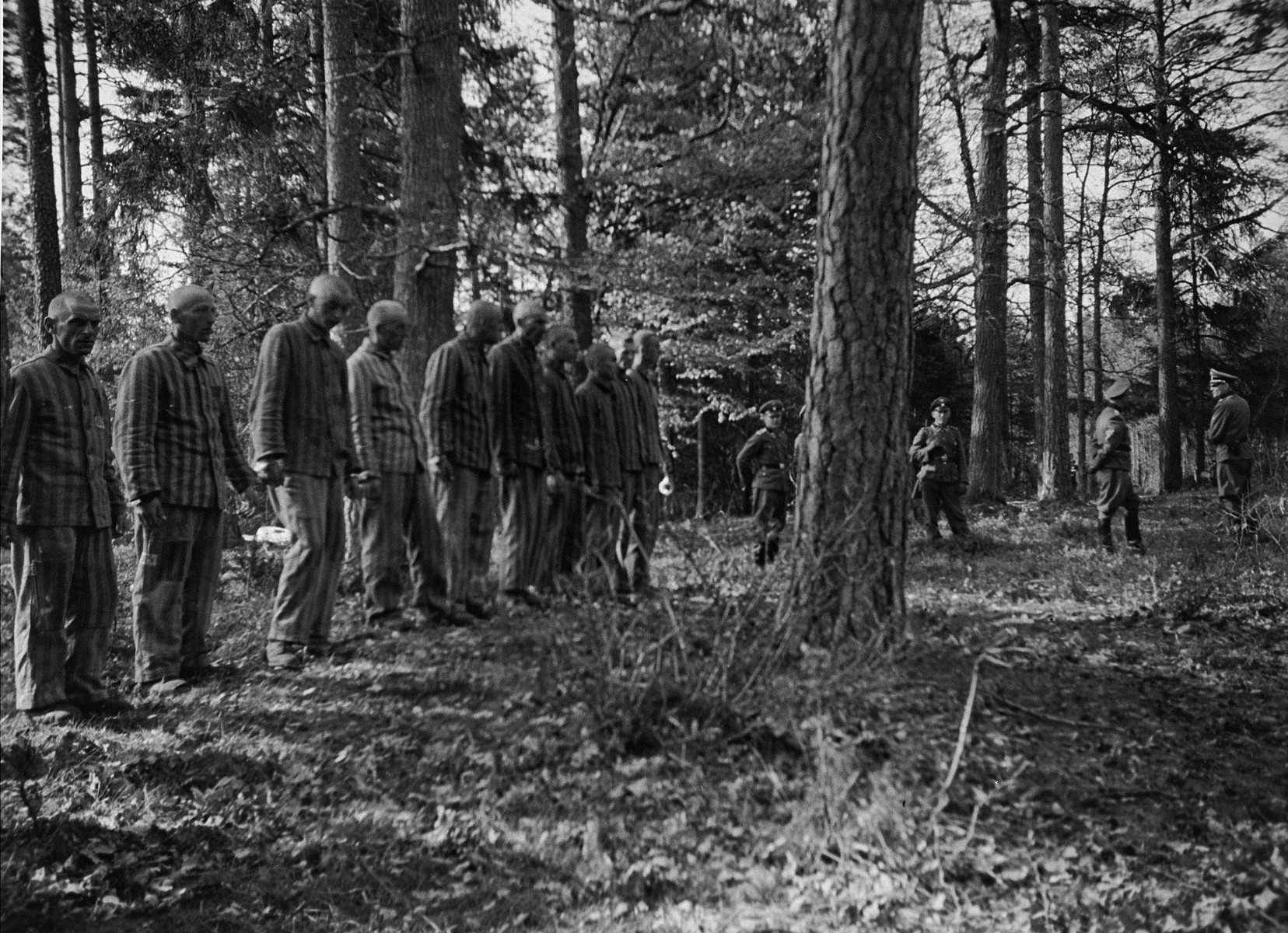 Prisoners from Buchenwald awaiting execution in the forest near the camp.On April 26, 1942, a Polish forced laborer, who worked at Bauern Schmidt's courtyard was beaten to the point of unconsciousness by a German policeman, Albin Gottwald. Two Poles took revenge on Gottwald and stabbed him to death on a forest path between Poppenhausen and Einoed. The two Poles then escaped. One of the two Poles, Jan Sowka (b. 10/19/22 in Thayngen, Switzerland) was apprehended shortly after his escape. On May 11, 1942, nineteen prisoners from Buchenwald were taken to the place in the woods where Gottwald's body had been found. The Buchenwald SS built three gallows -- two consisted of ten hooks each, and one was a single gallows. The nineteen Polish prisoners were positioned behind the gallows, and Jan Sowka stood on the opposite side. The executions began at 10:50 where the prisoners and Jan Sowka were hanged one after another on the single gallows. At the end, they were all hanged from the two group gallows. Hundreds of Polish forced laborers from the surrounding area were rounded up and forced to watch the executions.